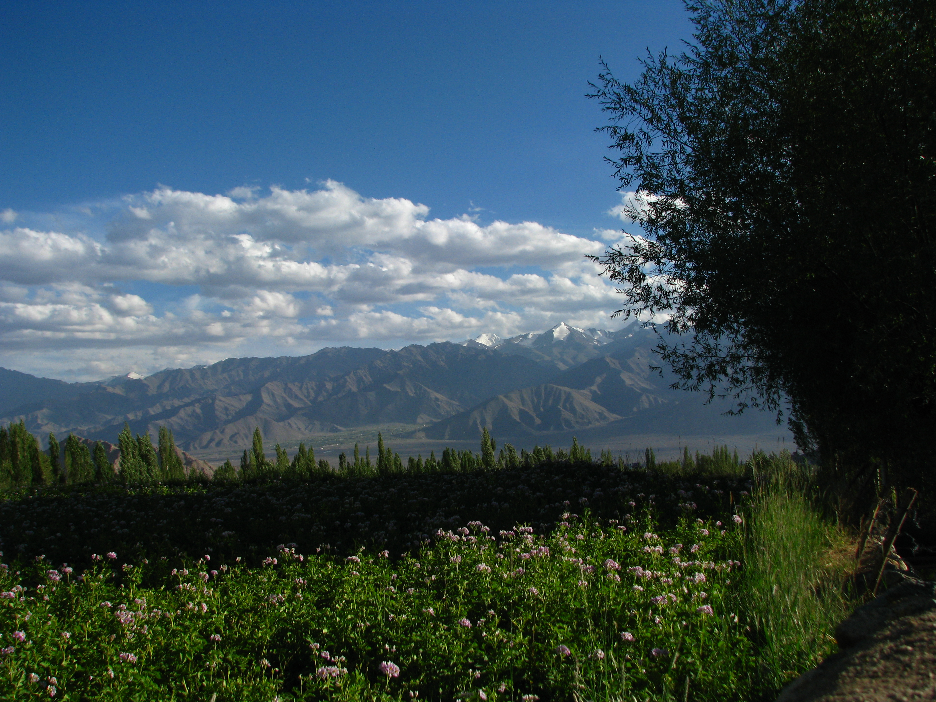 Perhaps the best part of the Goba Guesthouse is its setting among these lush fields and flowers, truly a beautiful and peaceful place to relax for a spell. This field is apparently potatoes, grown for their own uses over the winter, much of the guesthouse food grown locally.